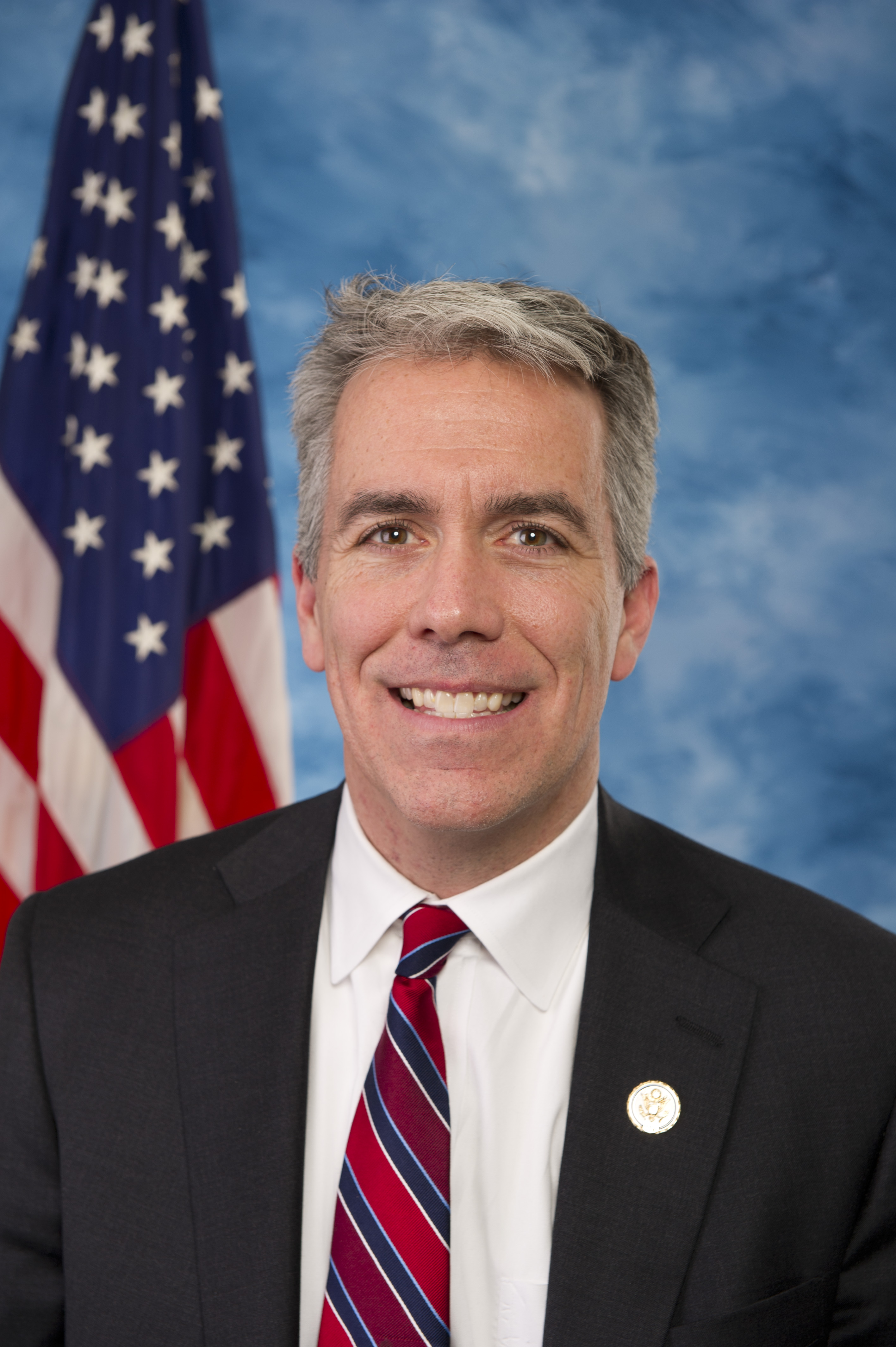 Portrait of U.S. Representative Joe Walsh (R-IL)